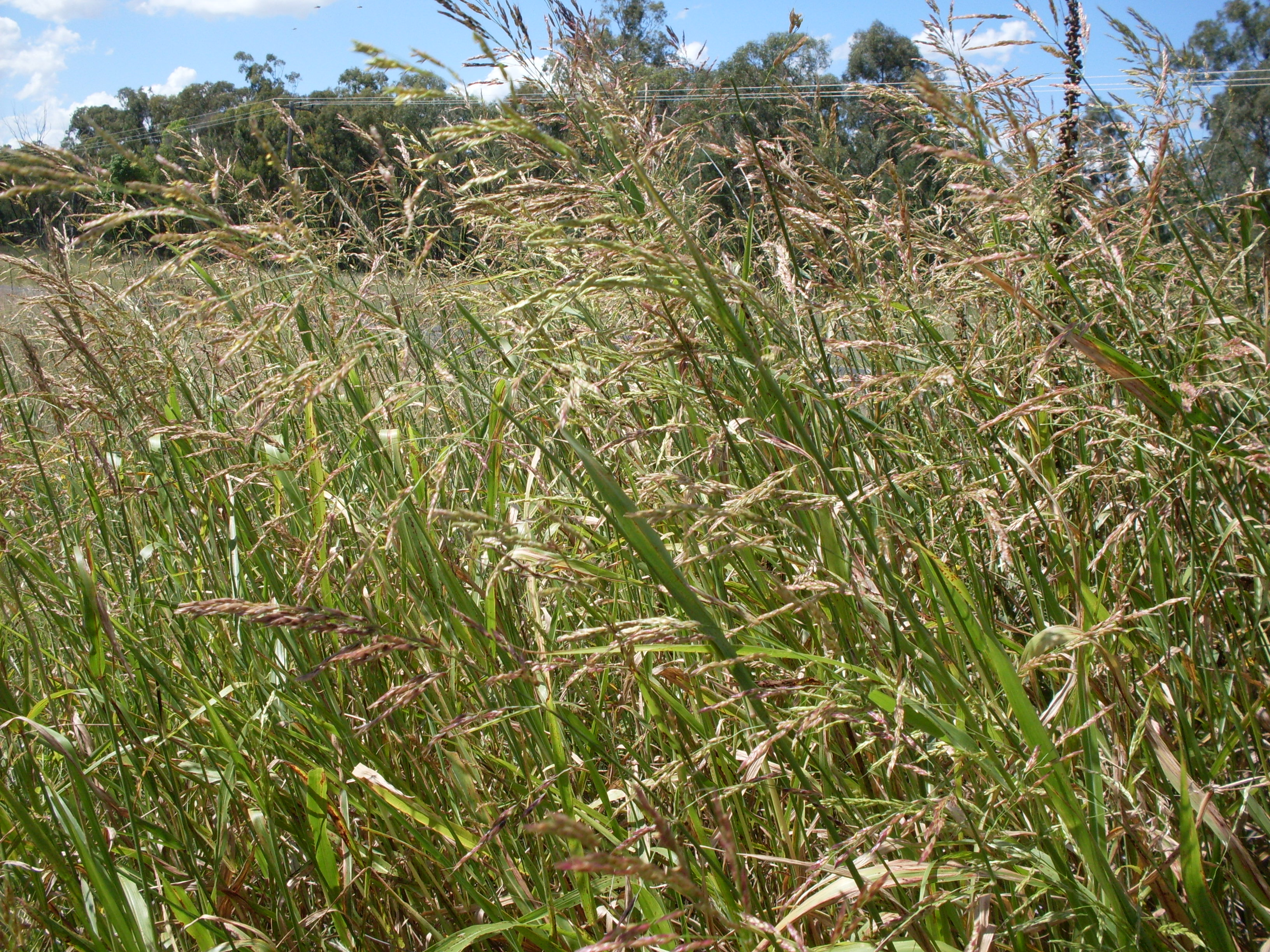 Johnson Grass, Sorghum halepense. Near Coonabarabran, NSW Australia, January 2009. Thanks to Harry Rose for the ID.